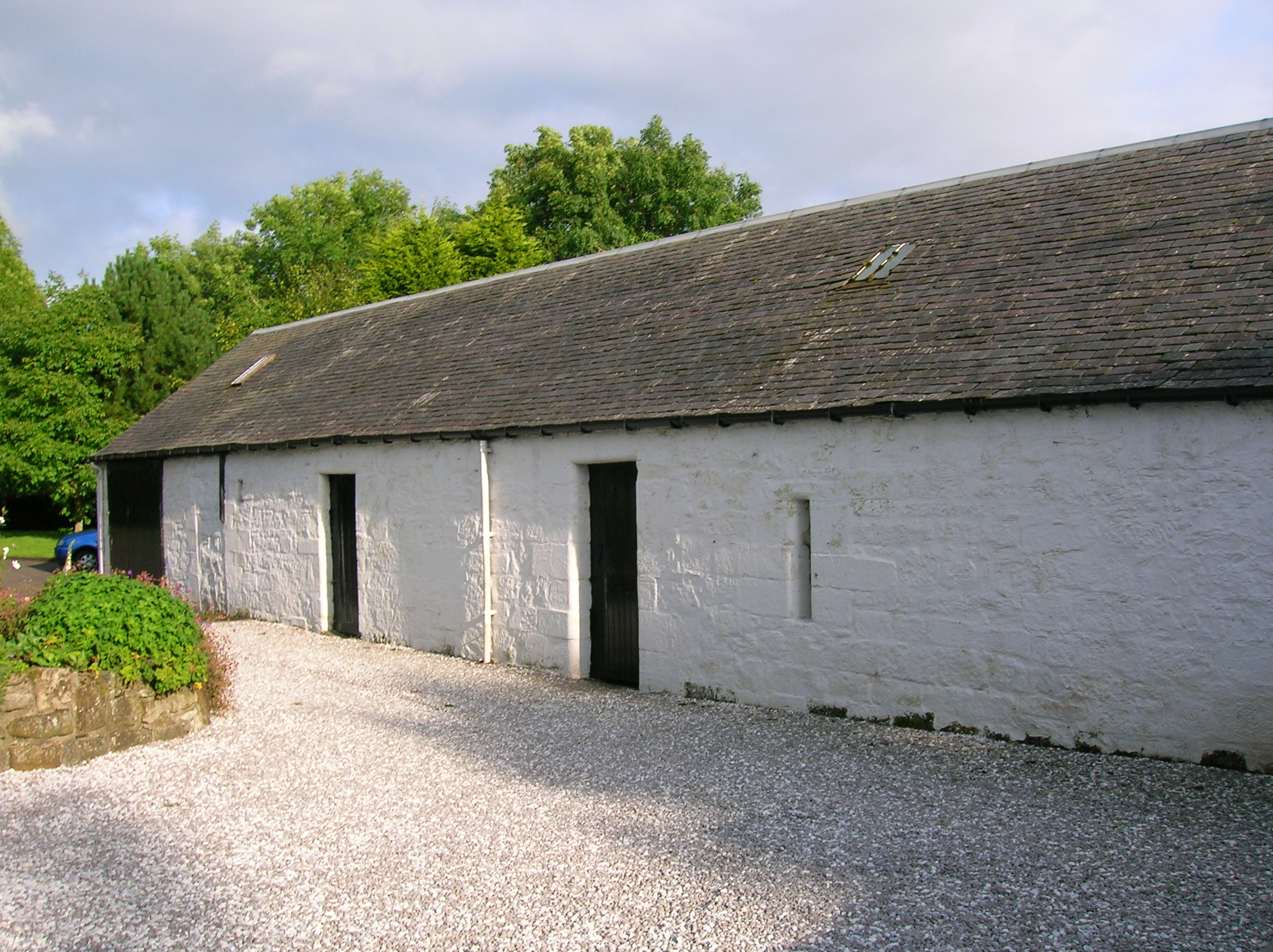 Outbuildings at Kilmaurs Place, East Ayrshire, Scotland